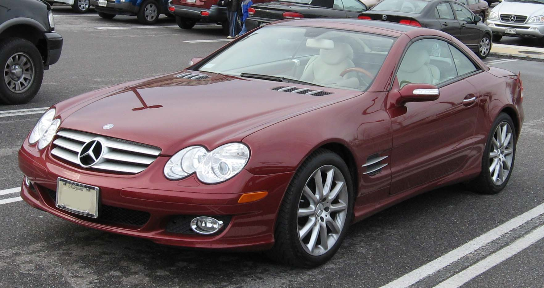 2007 Mercedes-Benz SL550 photographed in USA.